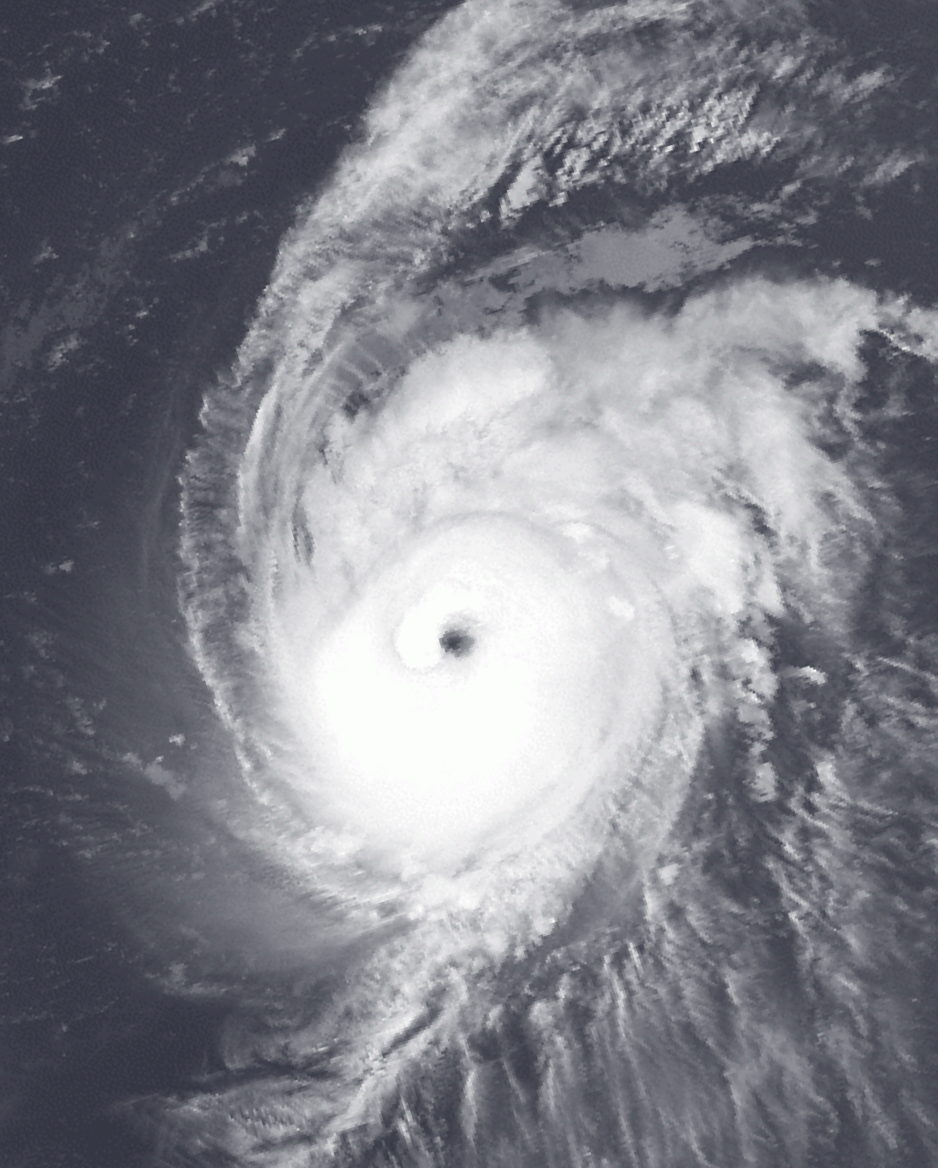 Hurricane Fabian shortly before peak intensity on September 1